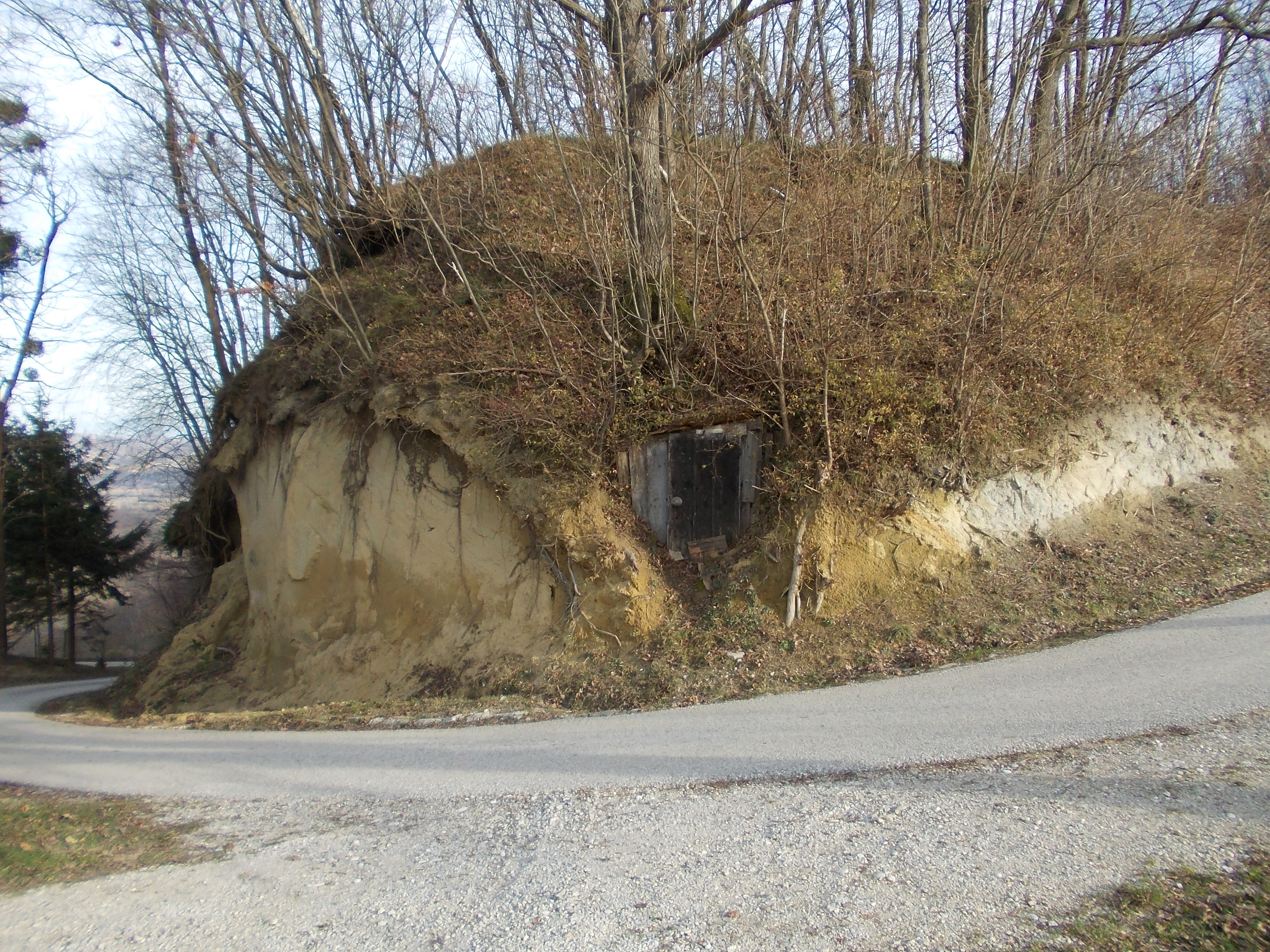 Turnip Cave in Stara Vas–Bizeljsko